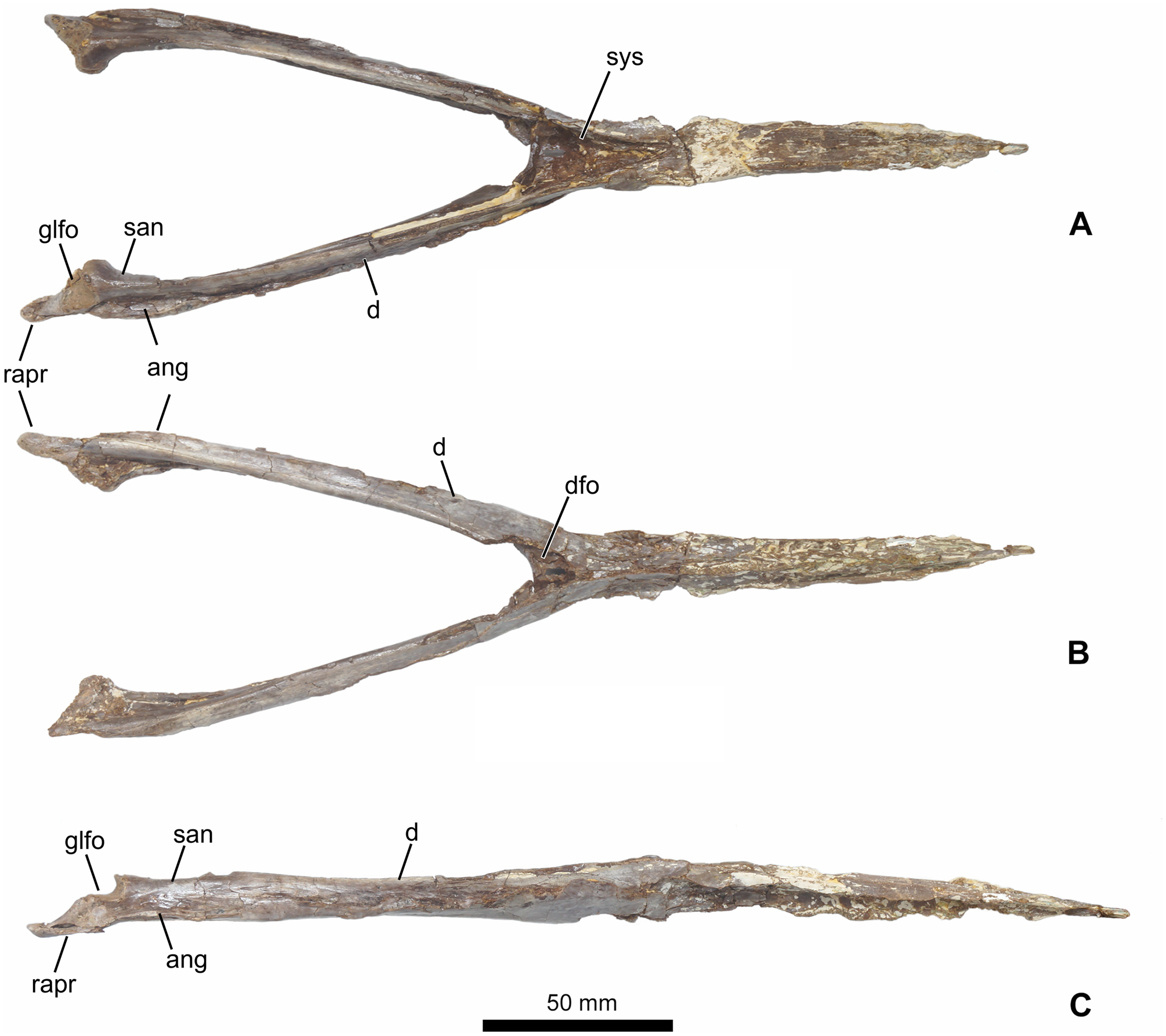 Holotype of Aymberedactylus cearensis gen. et sp. nov. (MN 7596-V). (A) Dorsal view. (B) Ventral view. (C) Right lateral view. Abbreviations: ang = angular, d = dentary, dfo = dentary fossa, glfo = glenoid fossa, rapr = retroarticular process, san = surangular, sys = symphyseal shelf.